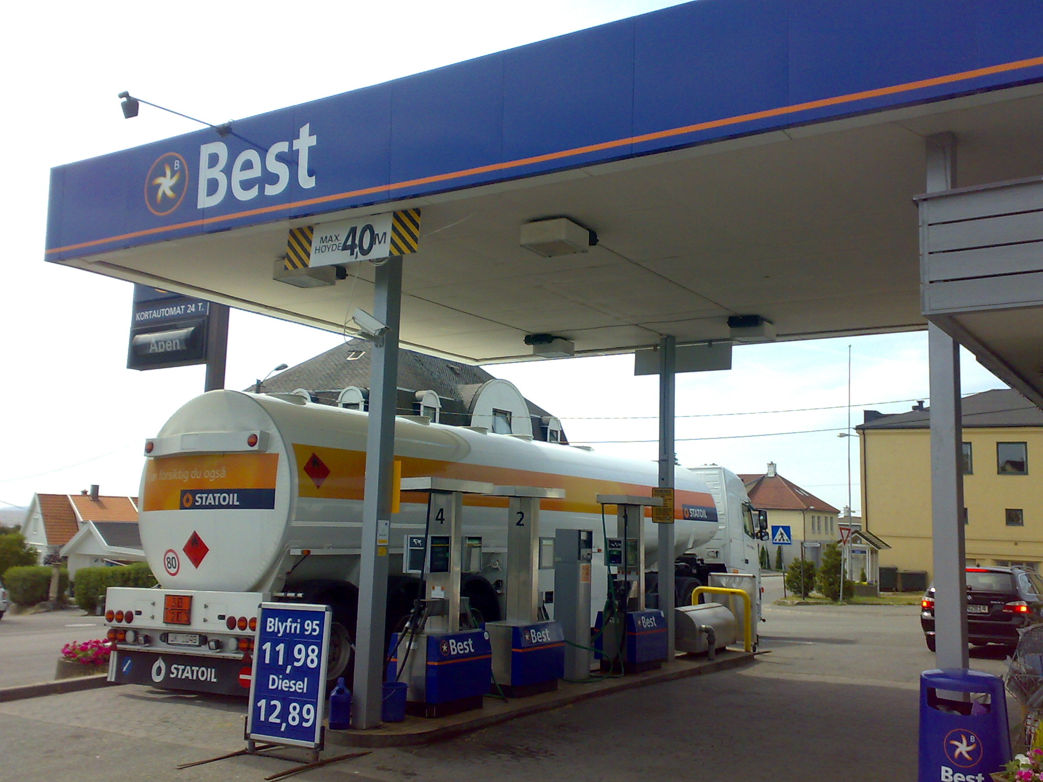 Best Stasjon, Hurum, Norway